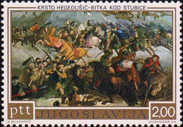 "Battle of Donja Stubica", by Krsto Hegedusic